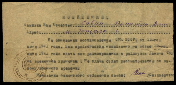 Translation: NOTIFICATION Surname, First Name, Patronymic: Savin Valentin Dmitrievich Address: 1, Maxim Gorky St. In accordance to decision of Council of People's Commissars of USSR from June 25, 1941, you are suggested immediately, but not later then June 30, 1941 to deposit your receiver for temporary storing in the Radio Node Office located 78, Lenin St. Ignoring will be considered in accordance to war period laws. Head of Kamensk Communications Branch: (signup) Seliverstov